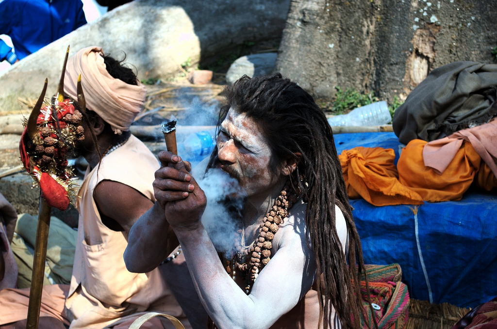 The holy puff